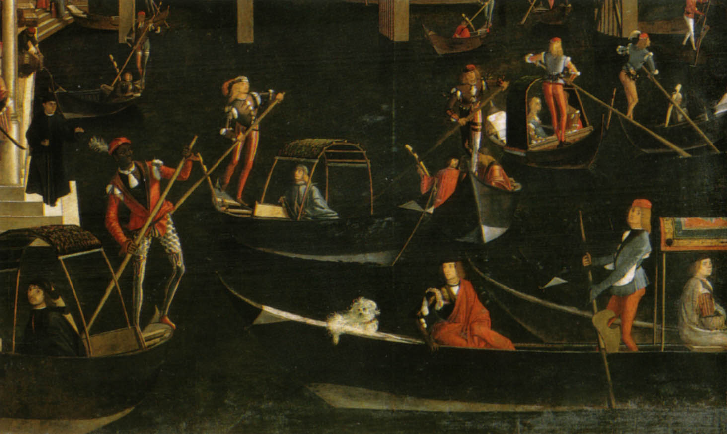 CARPACCIO, Vittore The Healing of the Madman Tempera on canvas, 365 x 389 cm Gallerie dell'Accademia, Venice